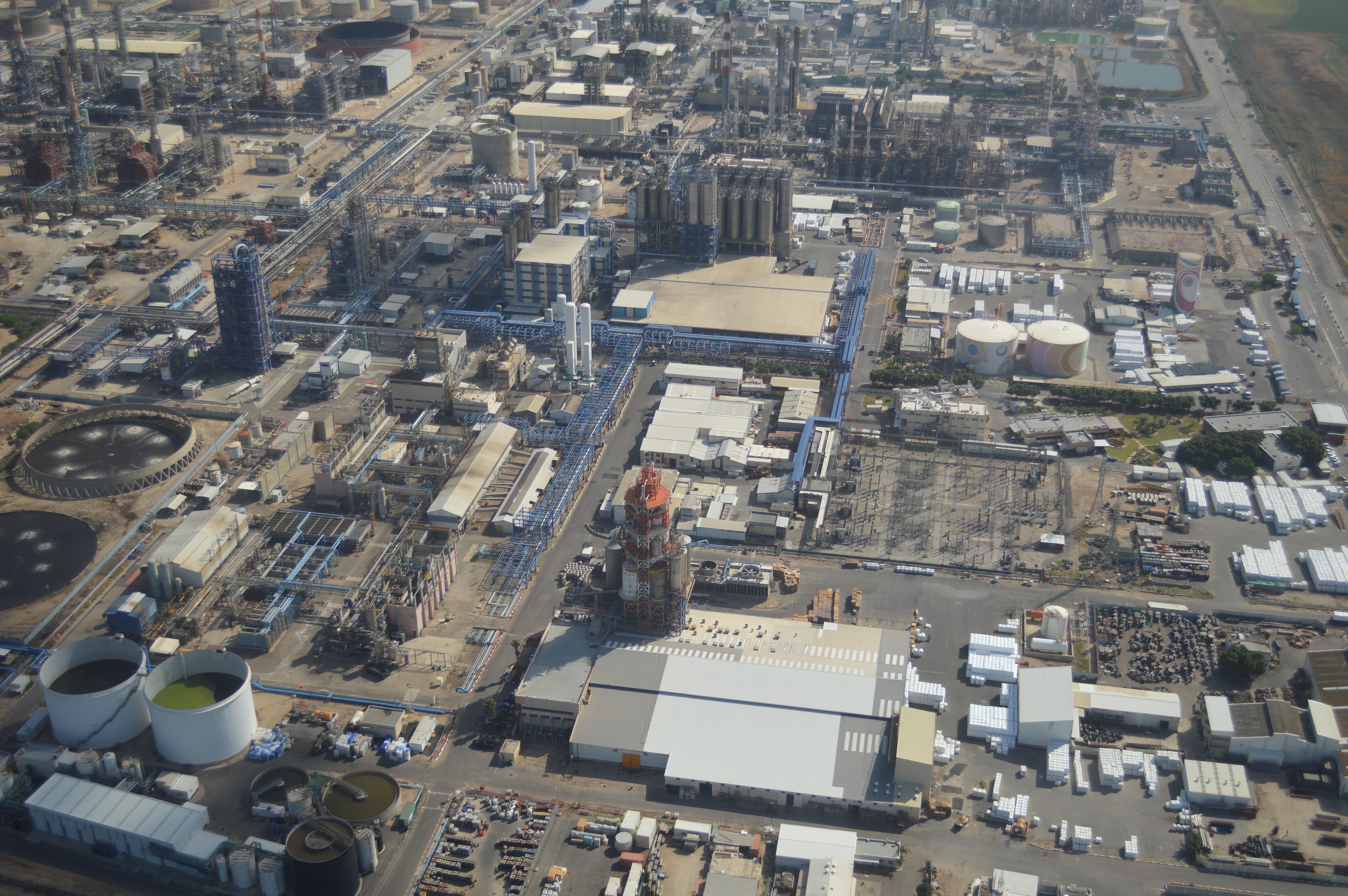 Aerial View of Haifa oil refineries